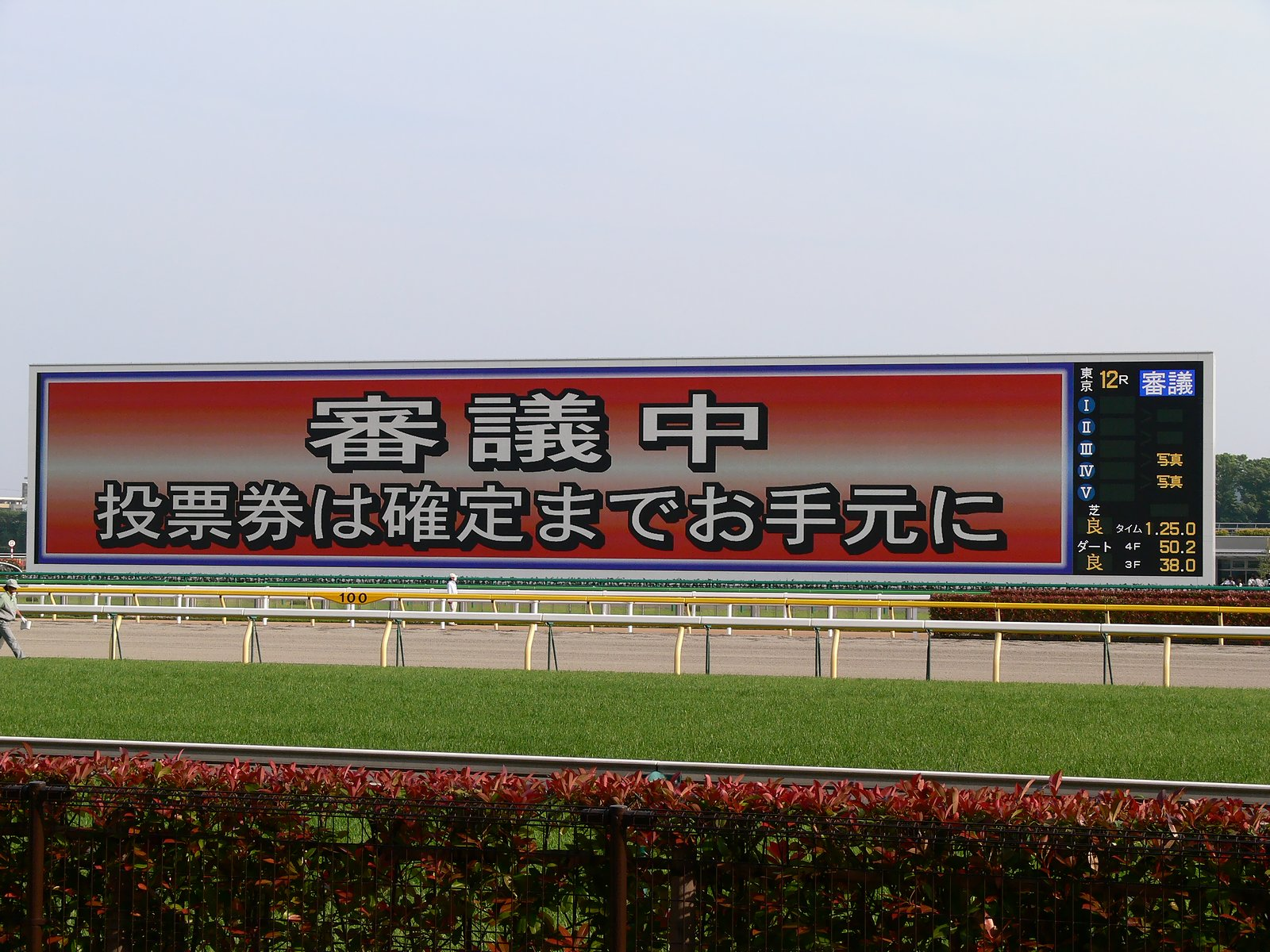 Tokyo race course 東京競馬場"Turf-vision".